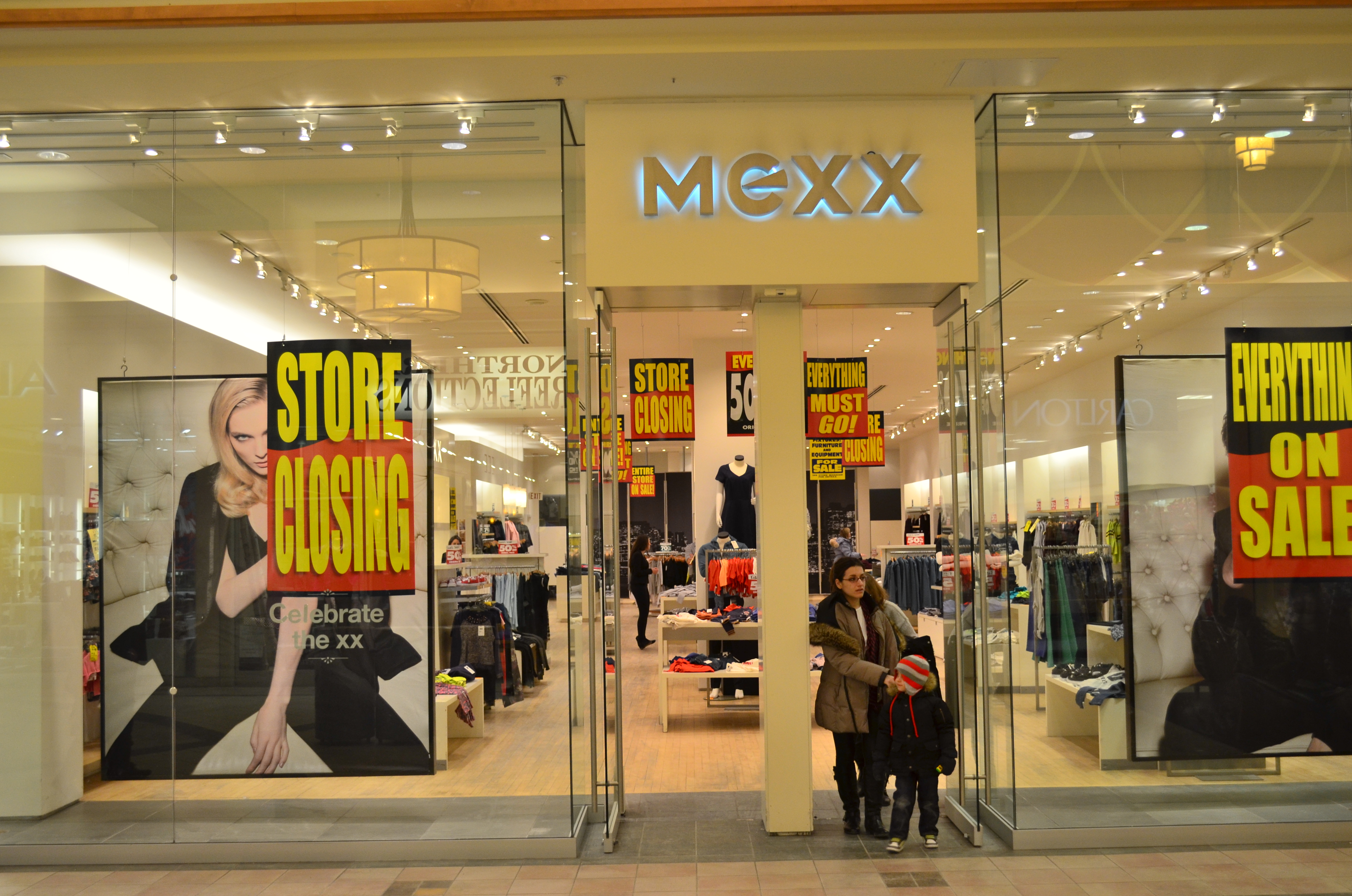 Store closing - Mexx at Hillcrest Mall